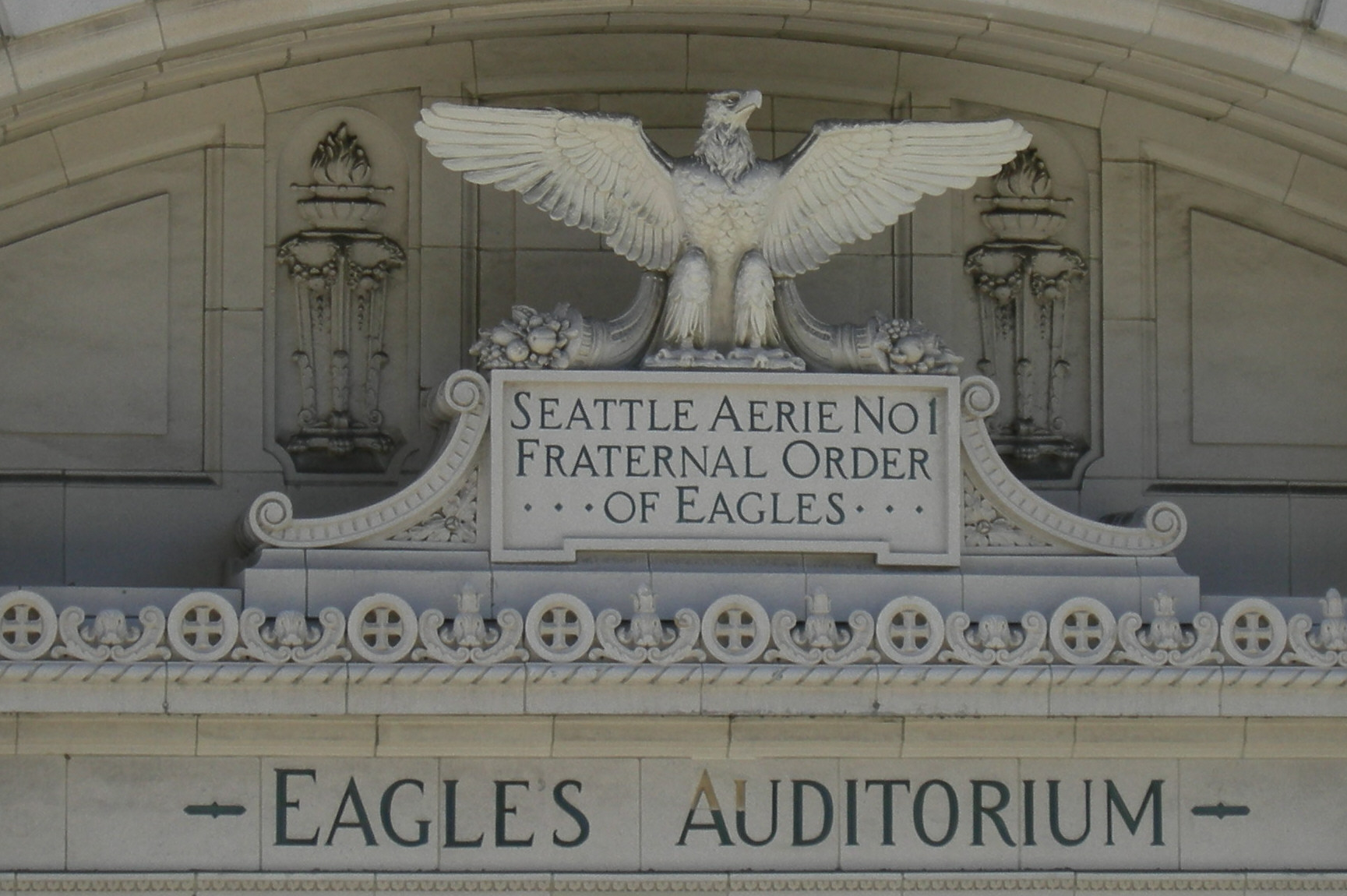 Detail of terracotta work, Eagles Auditorium Building, Seattle, Washington, now Kreielsheimer Place, home to ACT (A Contemporary Theater), with two stages and a cabaret (also 44 apartments). Also known as Eagles Temple and as the Senator Hotel, the elaborately terracotta-covered building (designed by the Henry Bittman firm) is on the National Register of Historic Places, ID #83003338. The building was the Aerie No. 1 of the Fraternal Order of Eagles (which was founded in Seattle); it was for many years a major concert venue; and it was where Martin Luther King, Jr. spoke November 10, 1961 on his only visit to Seattle.